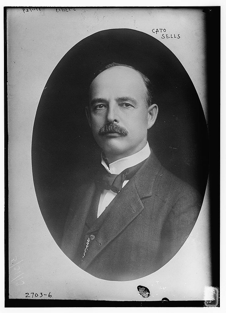 Cato Sells of the Bureau of Indian Affairs in 1913 1 negative : glass ; 5 x 7 in. or smaller. Notes: Title from unverified data provided by the Bain News Service on the negatives or caption cards. Forms part of: George Grantham Bain Collection (Library of Congress). Format: Glass negatives. Repository: Library of Congress, Prints and Photographs Division, Washington, D.C. 20540 USA, General information about the Bain Collection is available at Persistent URL: Call Number: LC-B2- 2703-6